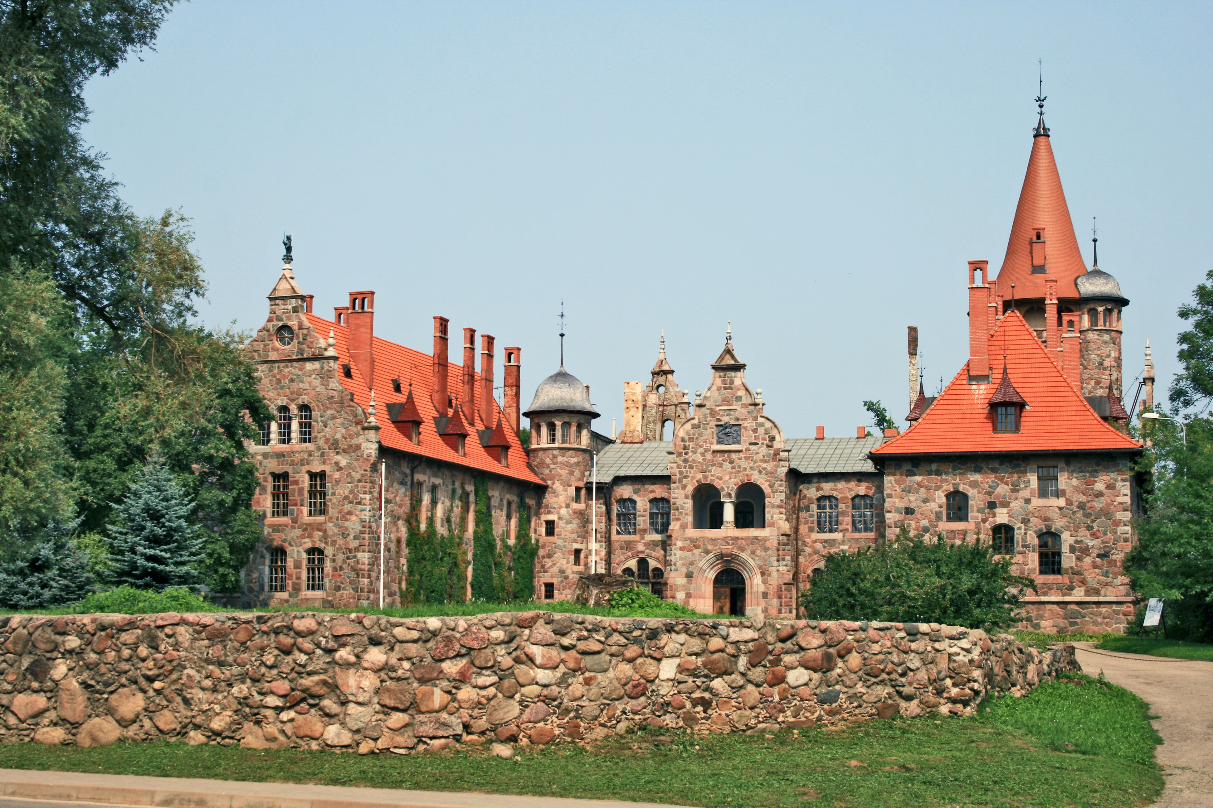 Cesvaine Palace was completely built in 1896.